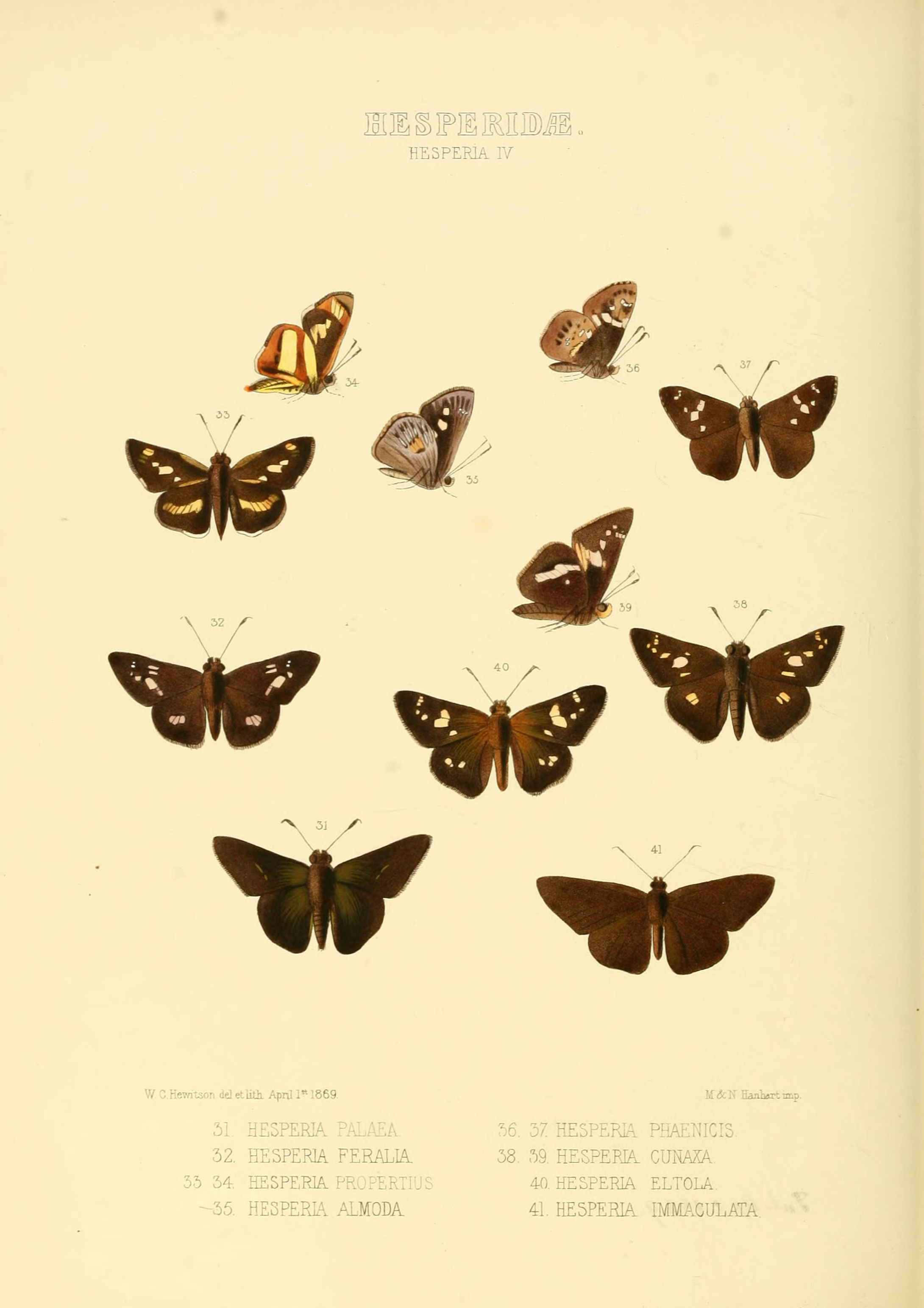 Plate: Hesperia IV Hesperia palaea. Fig. 31. Accepted as Asbolis capucinus (Lucas, 1857). Hesperia feralia. Fig. 32. Accepted as Isma feralia (Hewitson, 1868). Hesperia propertius. Figs. 33, 34. Accepted as Propertius propertius (Fabricius, 1793). Hesperia almoda. Fig. 35. Accepted as Phanes almoda (Hewitson, 1866). Hesperia phaenicis. Figs. 36, 37. Accepted as Hyarotis adrastus (Stoll, 1780). Hesperia cunaxa. Figs. 38, 39. Accepted as Atalopedes mesogramma (Latreille, 1824). Hesperia eltola. Fig. 40. Accepted as Polytremis eltola (Hewitson, 1869). Hesperia immaculata. Fig. 41. Accepted as Enosis immaculata (Hewitson, 1868).